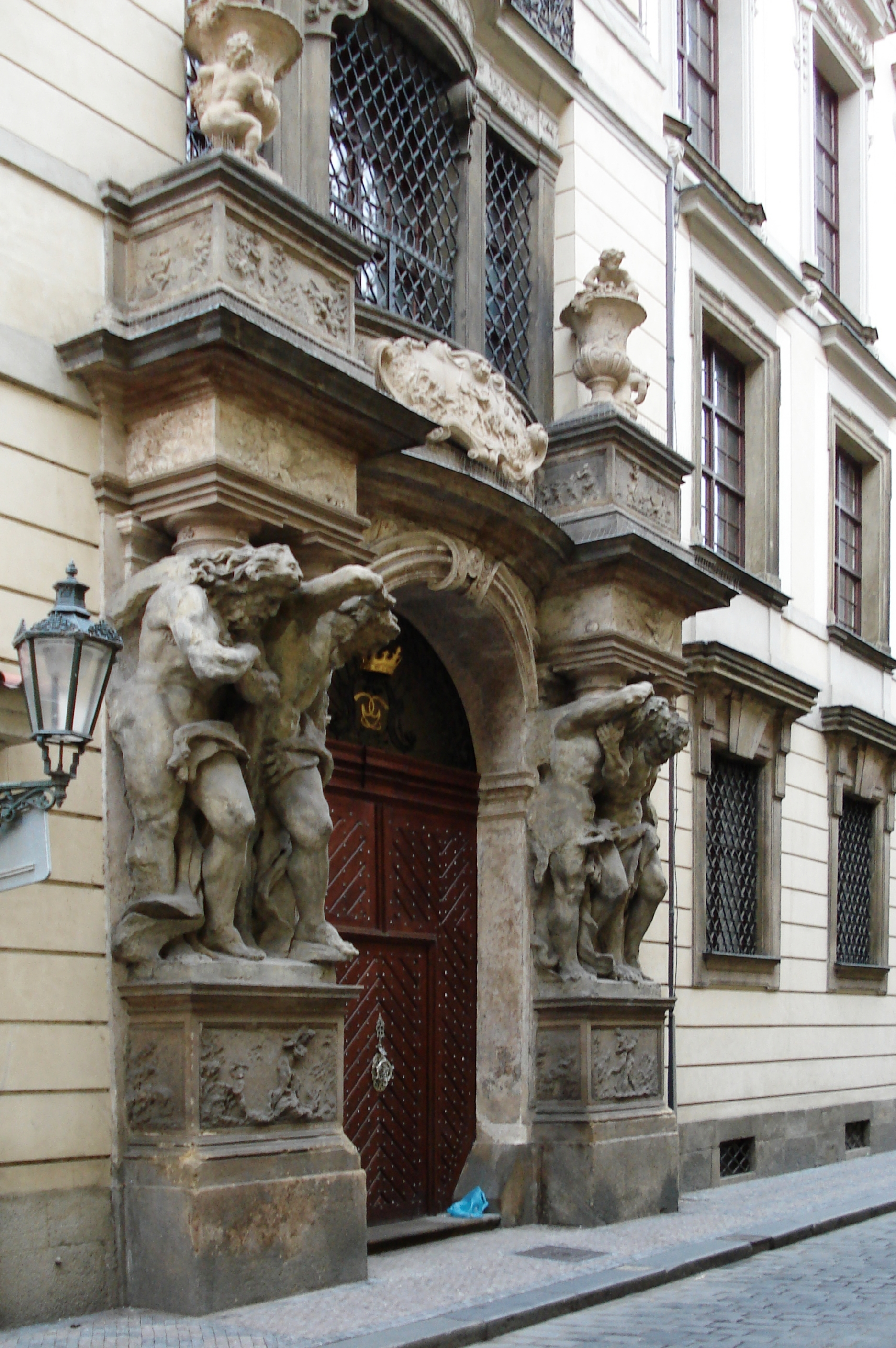 Clam-Gallas palace in Prague - entrance portal to the palace